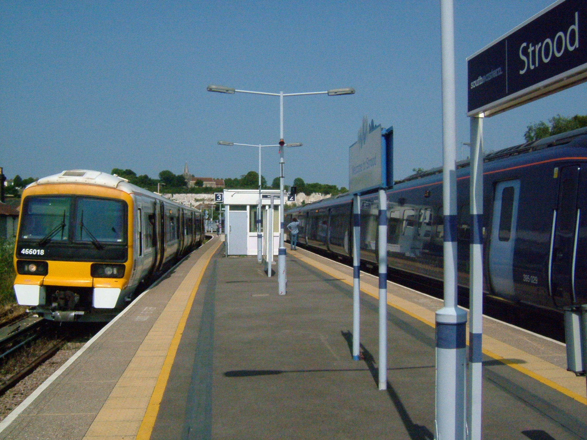 Strood railway station Platform 3- Maidstone West line. Javelin to St Pancras leaving from platform 2